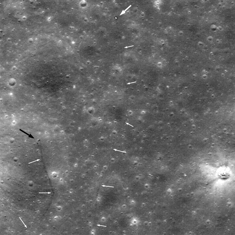 The Lunokhod 2 rover. The large white arrow indicates the rover, the smaller white arrows indicate the rovers tracks, and the black arrow indicates the crater where it picked up its fatal load of lunar dust 880 meters before failing.